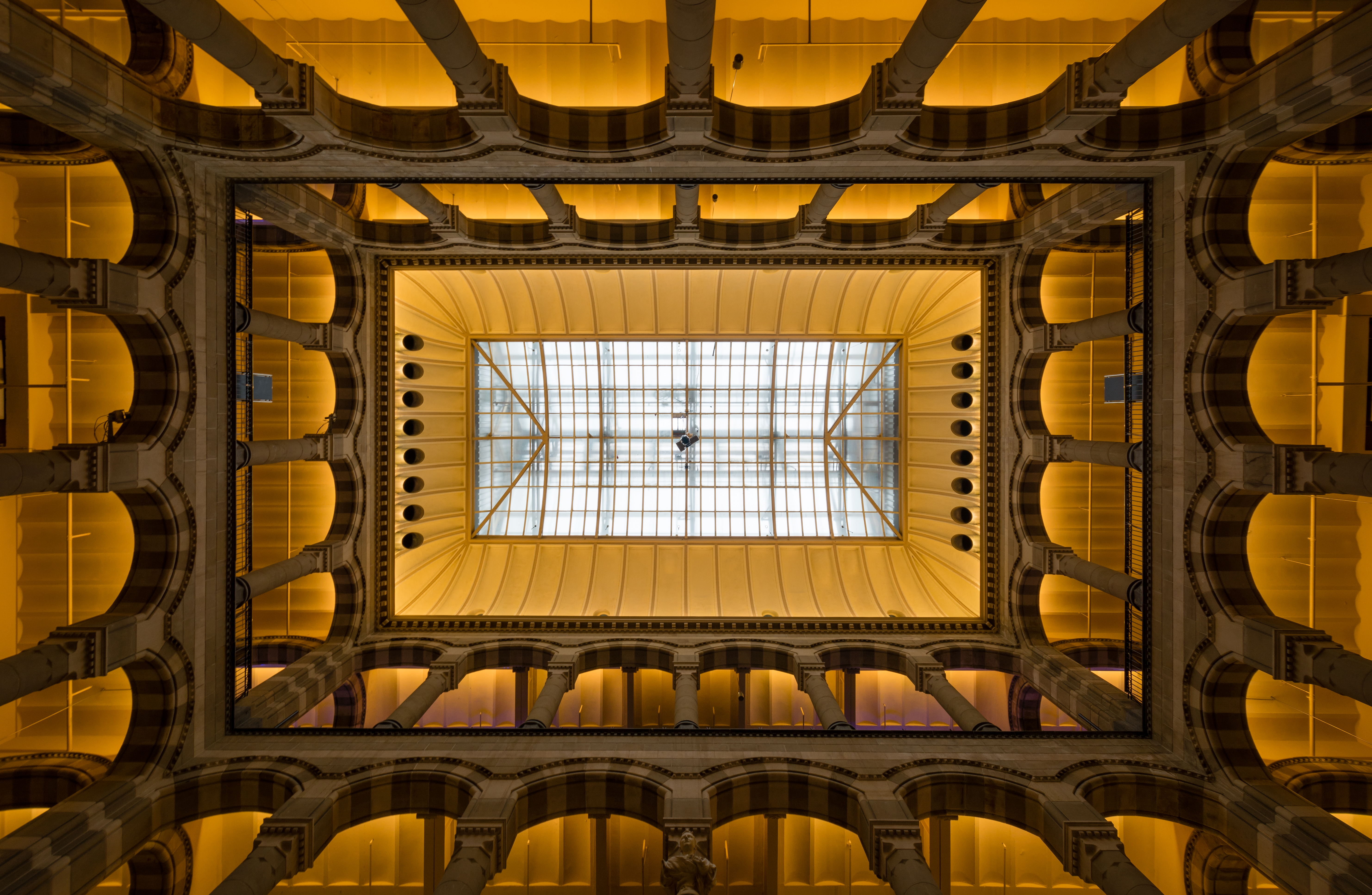 Shopping center Magna Plaza in Amsterdam, photographed towards the ceiling